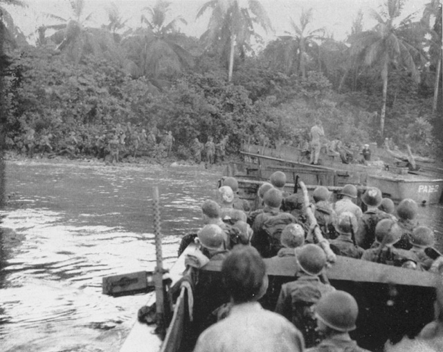 The US 2nd Battalion, 172nd Infantry Regiment landing on Arundel Island, August 1943